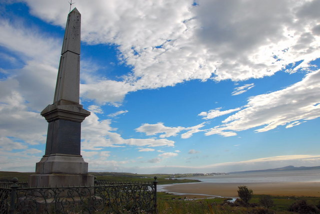 Monument, near Bridgend, Islay. The inscription reads:- John Francis Campbell, of Islay, an eminent Celtic scholar linguist scientist & traveller, a true and patriotic highlander, loved alike by peer and peasant, by his, popular tales of the west Highlands, "Leabhar na Feinne", and other literary works, he preserved and rendered classic the, folk-lore of the Scottish Highlands. He lies buried at Cannes in France, his memory lives in the hearts of his countrymen. Born 1821 – Died 1885